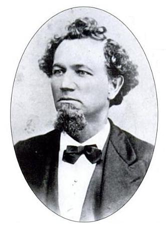 A photograph of frontier doctor Charles Boarman (1828–1880), son of Rear Admiral Charles Boarman, who was one of the first people to settle in Amador County, California and served as the first county physician and coroner from 1863 to 1880. He was also a founding member of the Society of California Pioneers and presided over the first meeting of the Amador County chapter in 1877.